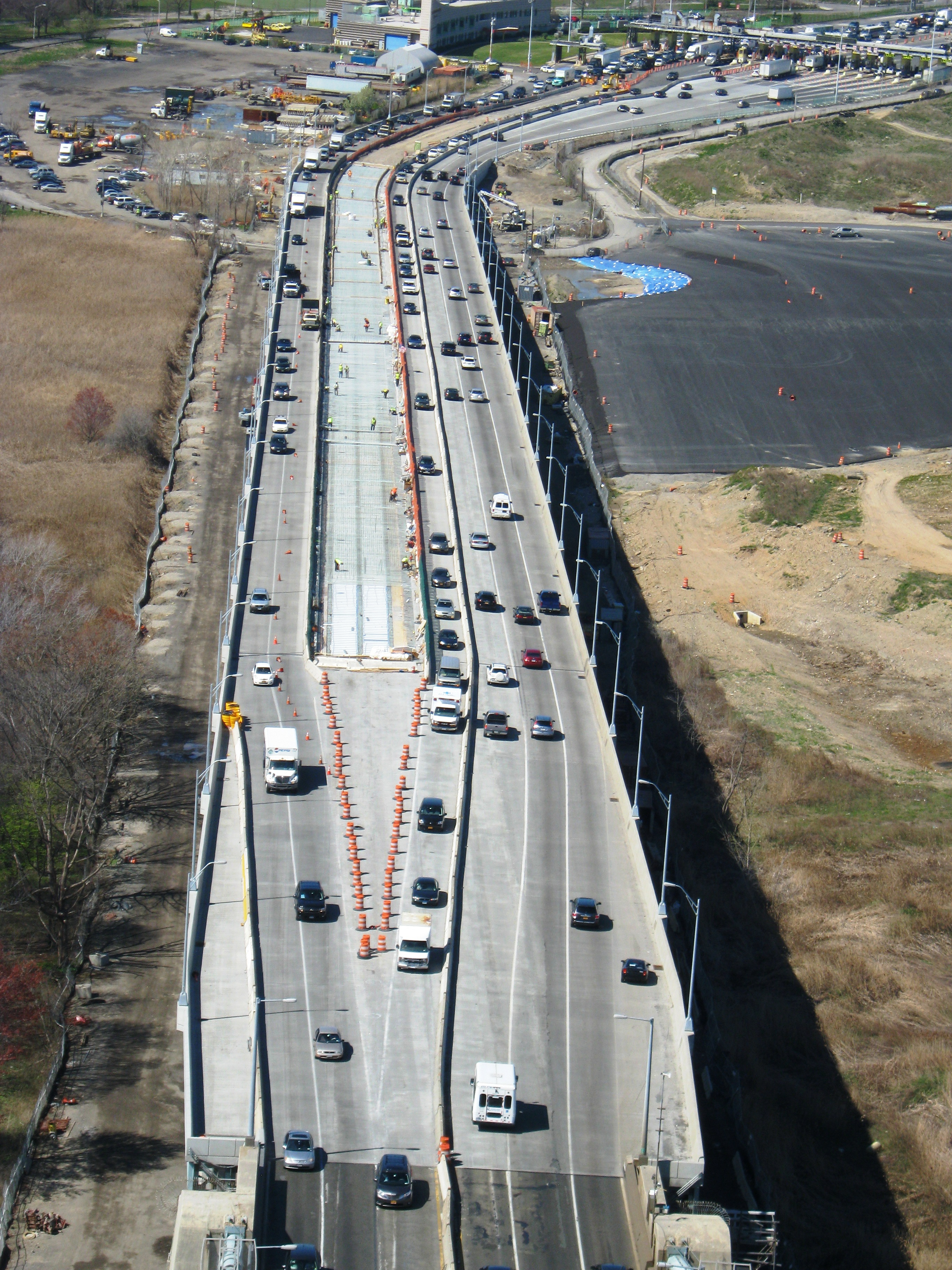 The four-year, nearly $200 million project to reconstruct the Bronx approach roadway at the Bronx-Whitestone Bridge, providing drivers with wider 12-foot lanes and brand new safety shoulders, is entering the final phase of construction. Overnight concrete pours will take place over two weeks starting Wednesday night April 11th, which requires the closure of two southbound lanes heading into Queens. Motorists should expect delays and use the Throgs Neck Bridge as an alternate. The work is dependent on good weather. The project included the reconstruction of 1,785-feet of elevated roadway at the Bronx end of the bridge as well as the construction of 15 new double-arch concrete piers beneath the bridge that helped support the wider 12-foot lanes and the new safety shoulders. All of this was accomplished while an average 104,000 vehicles continued using the bridge each day. During the year-long permanent lane closure a reversible lane was used to maintain three traffic lanes during peak drive times to the Bronx in the morning and to Queens in the evening. Roadway level work will be completed by the summer and the entire project, including final work below the roadway, will be finished on schedule by the end of the year. The contractor on the project, which began in December 2008, is Conti of New York, LLC. Photo courtesy of GPI/Parsons and Conti.